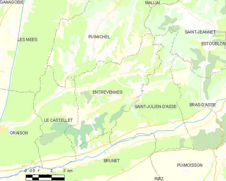 Map commune FR insee code 04077.png Légende